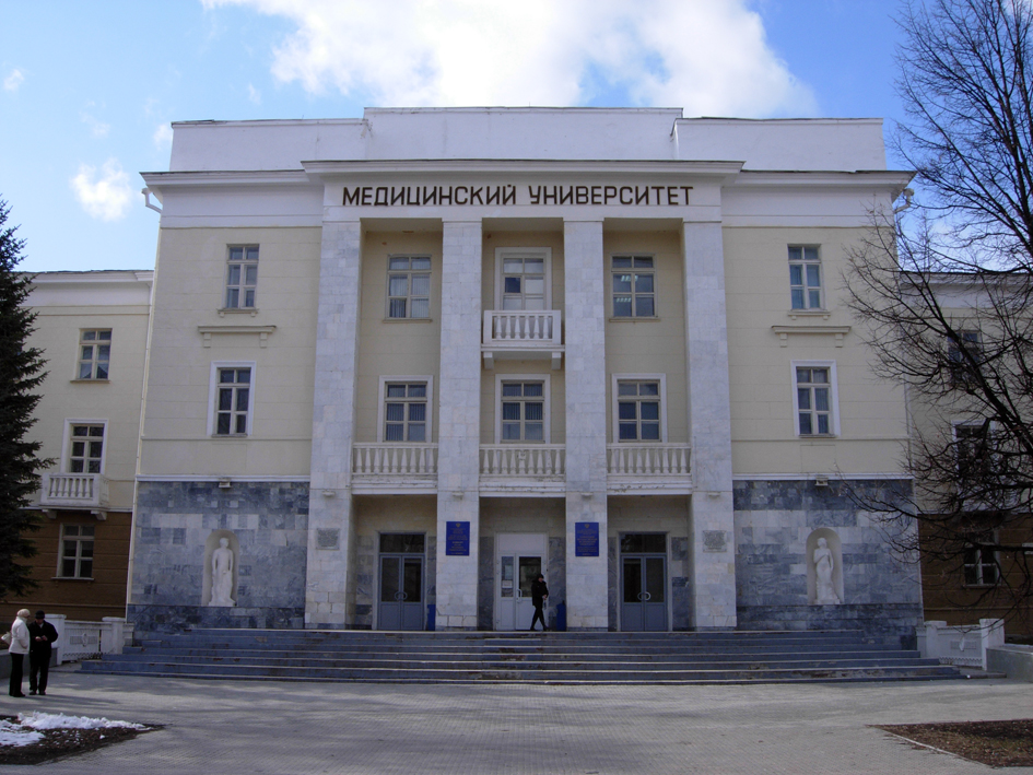 Bashkir State Medical University